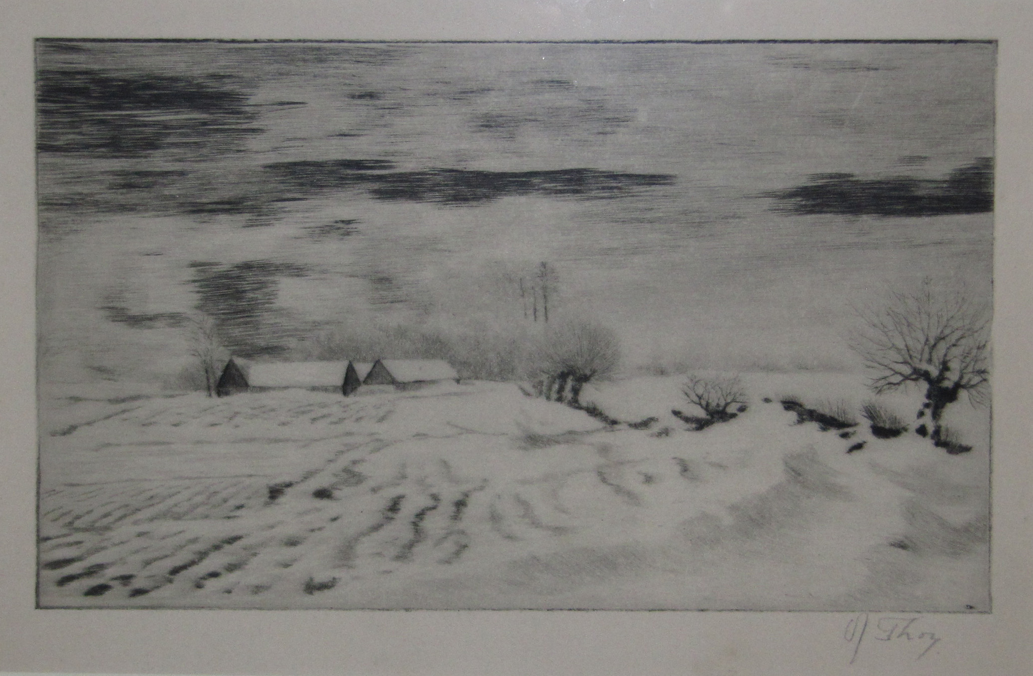 Winter landshape by Emil Johanson-Thor (1920ies)